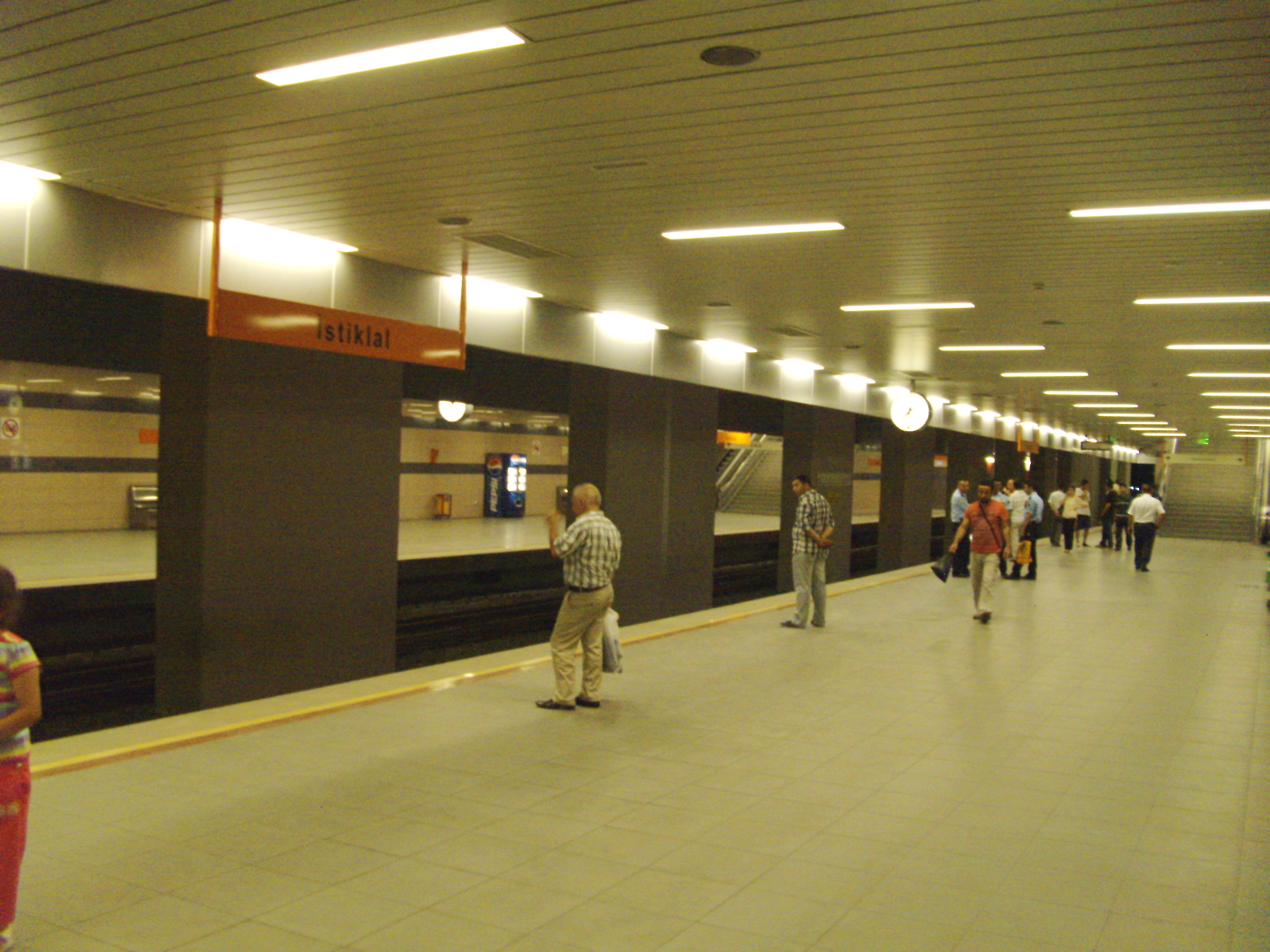 İnside the station